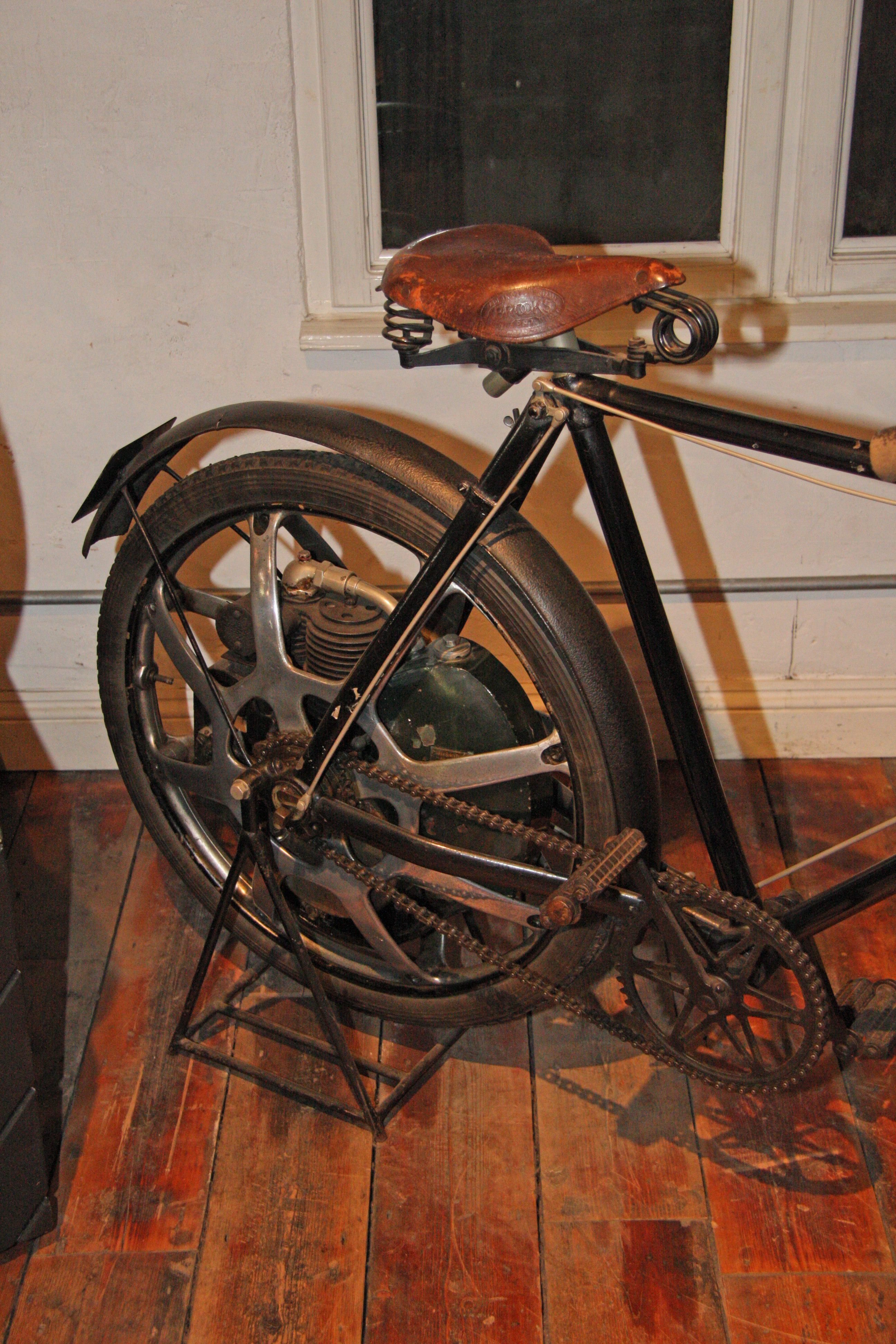 222cc single cylinder motorwheel